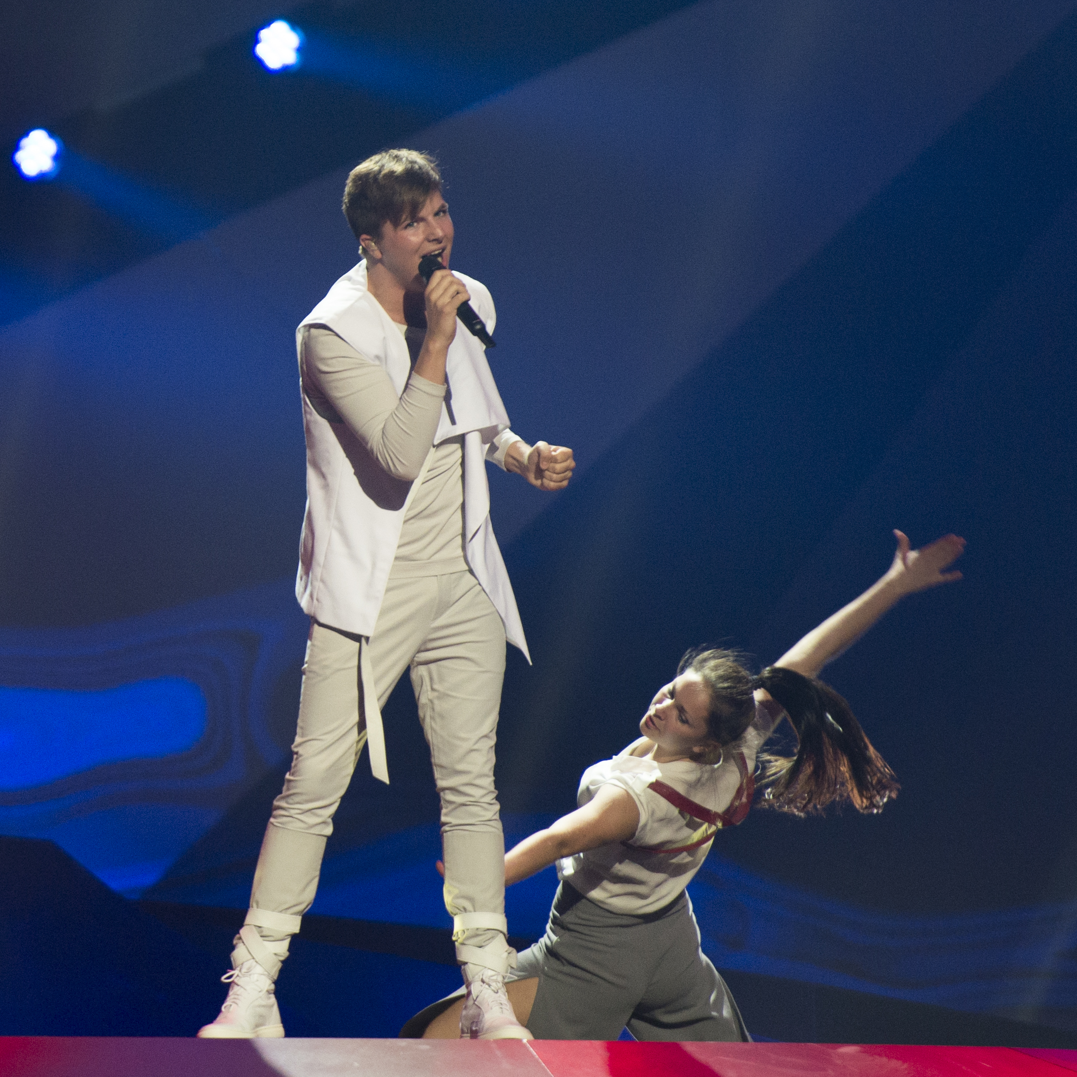 Robin Stjernberg representing Sweden with the song "You" during the first dress rehearsal of the final of the Eurovision Song Contest 2013 in Malmö. (Help translate this text)